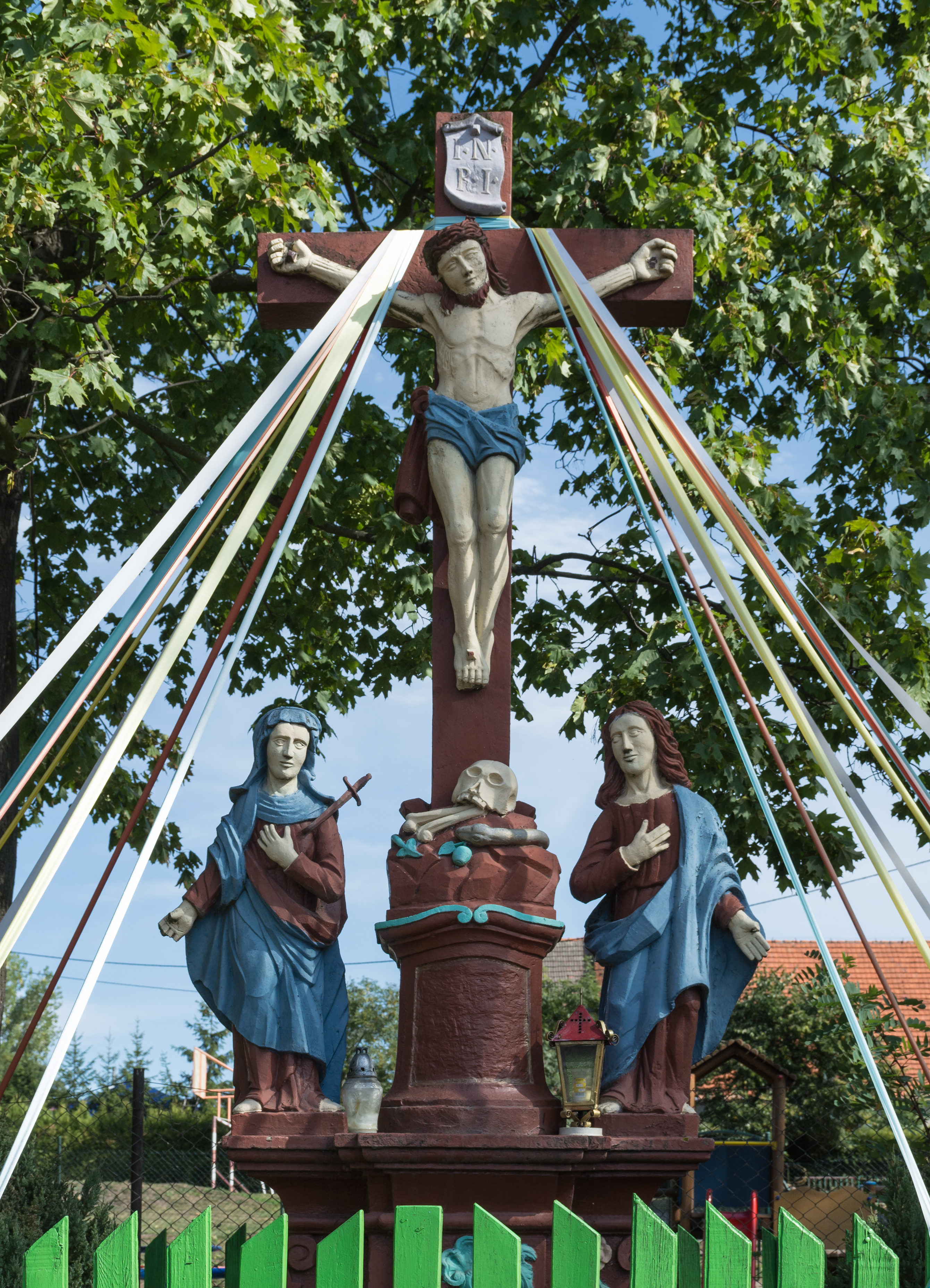 Crucifixion group in Bierkowice